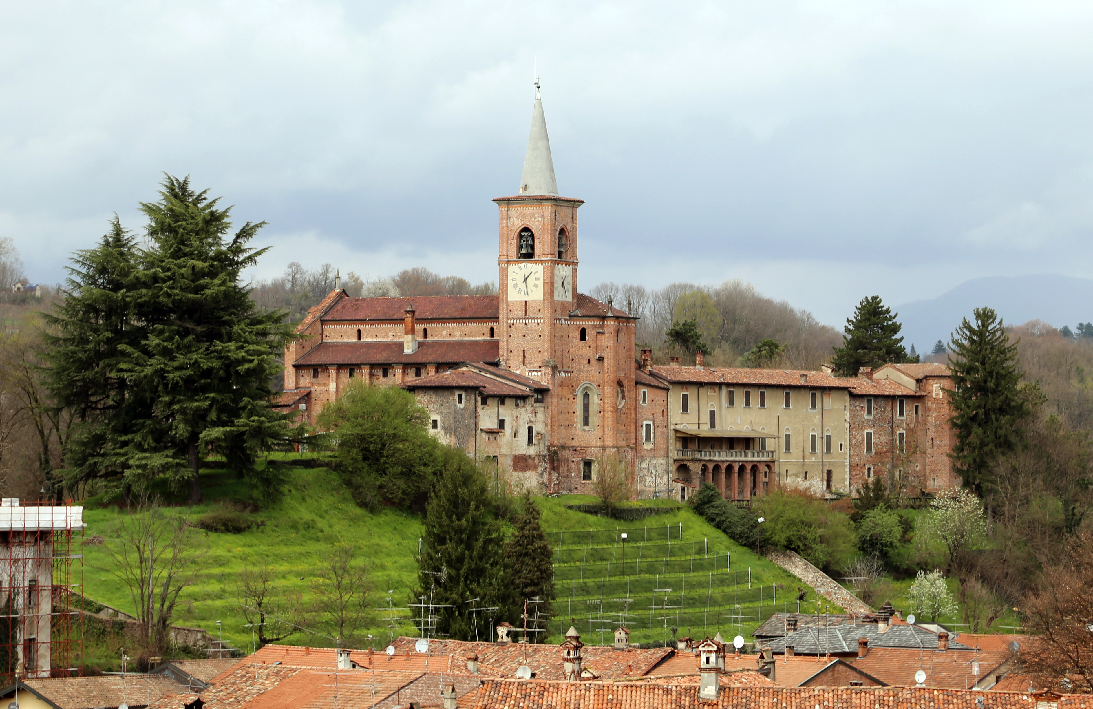 Collegiata (Castiglione Olona)